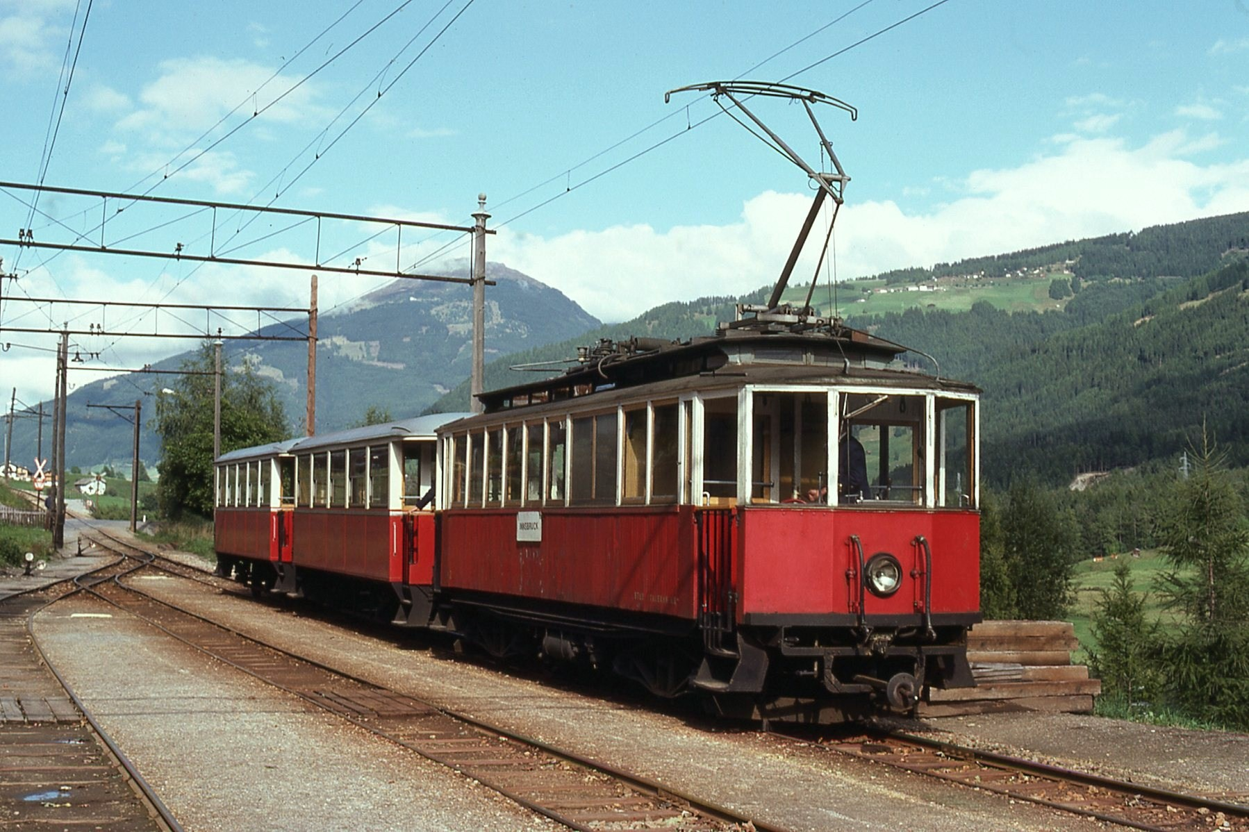 Stubaitalbahn train at Fulpmes